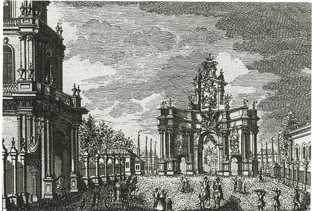 The triumphal gate of Catherine the Great in Triumfalnaya Square in Moscow